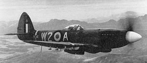 Supermarine Spitfire Mark 24 in flight.